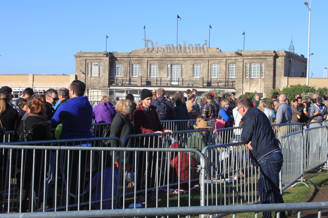 Crowds queing on the Beach Lawns in Weston-super-Mare to visit Banksy's temporary Dismaland 'bemusement park' in 2015.